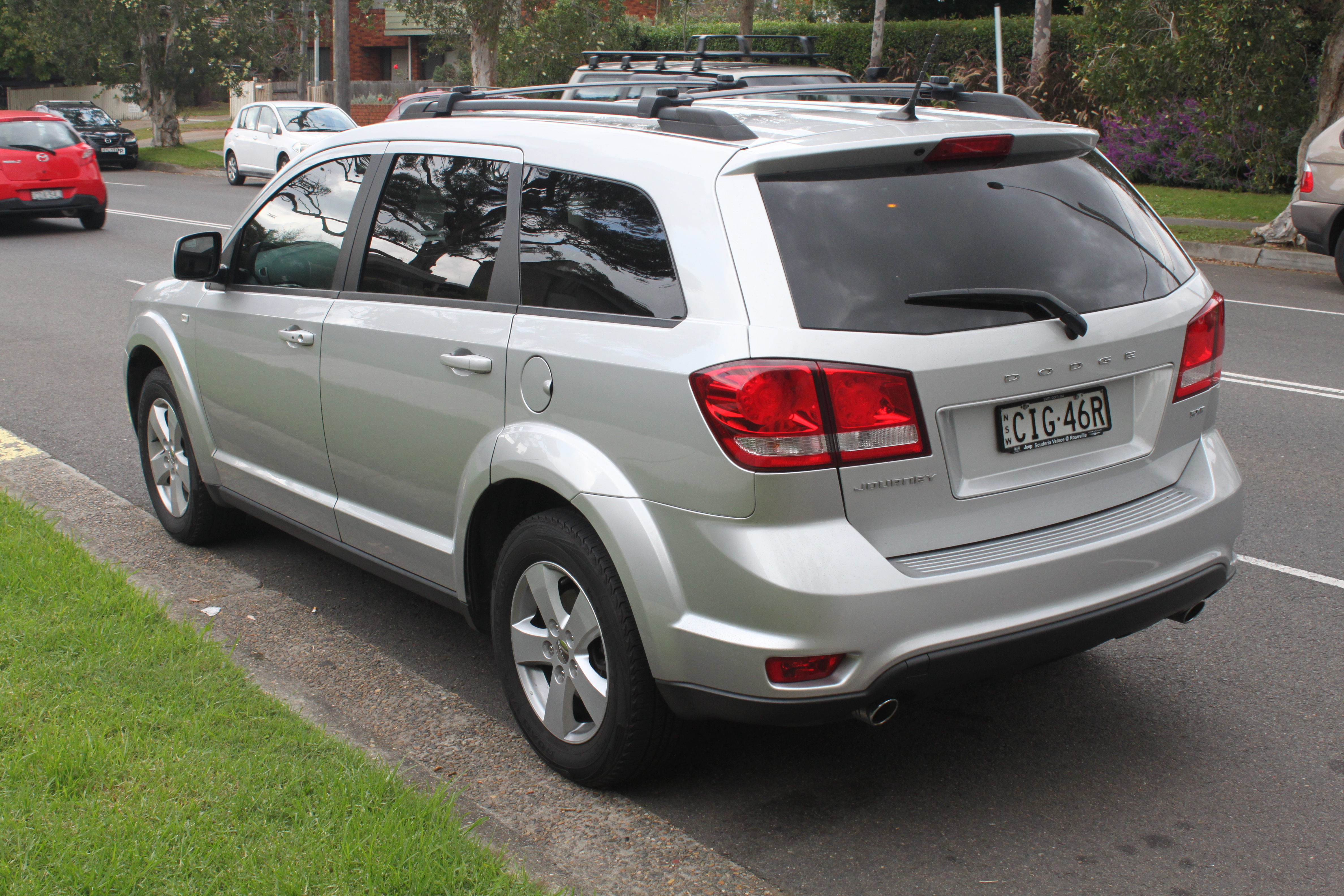 Dodge Journey JC SXT